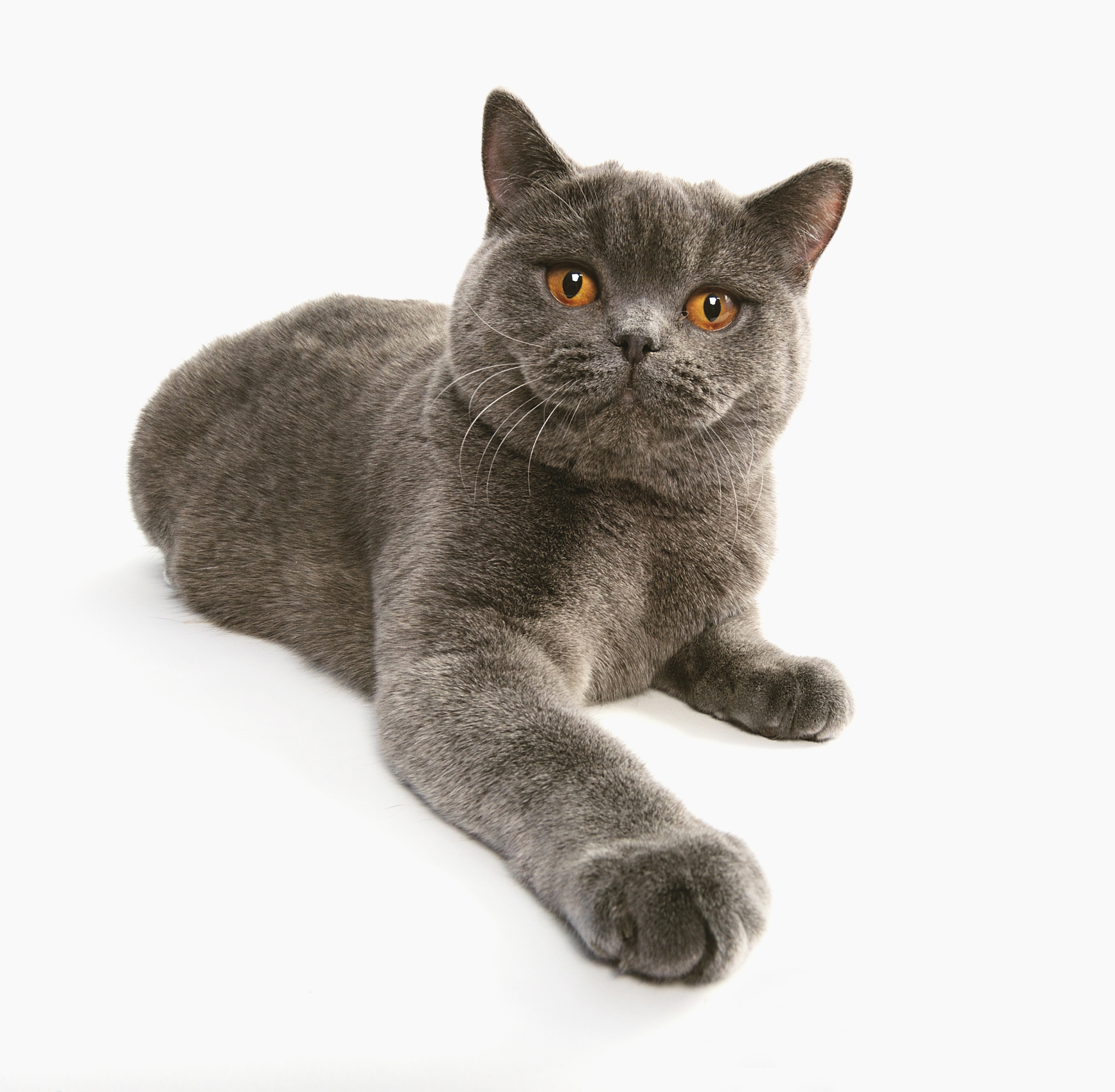 Excalibur Mystica of British Empire - British Shorthair Female - cat 7 month old from British Empire cattery Picture taken by Tamila Aspen owner of the cat.